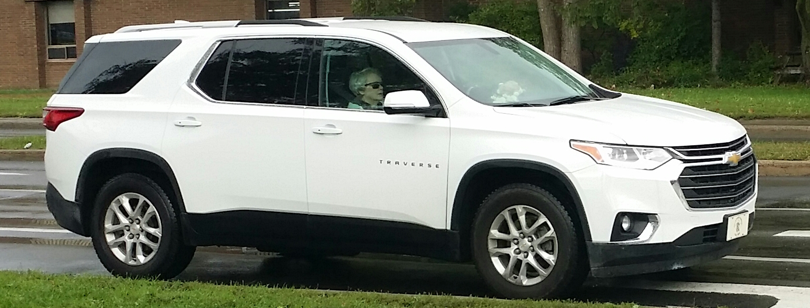 2018 Chevrolet Traverse photographed in Pointe-Claire, Québec, Canada.